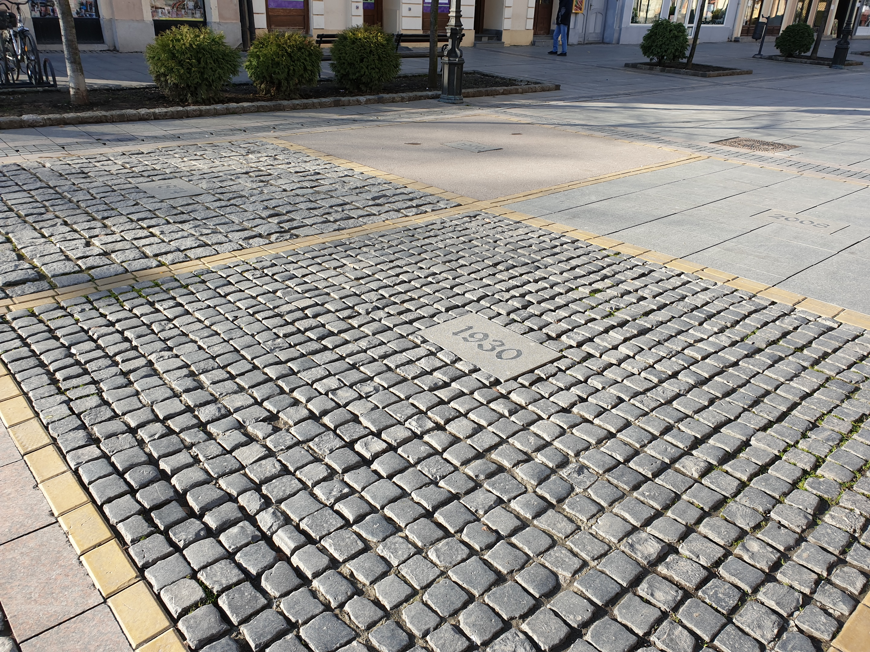 Улица Краља Петра I-1